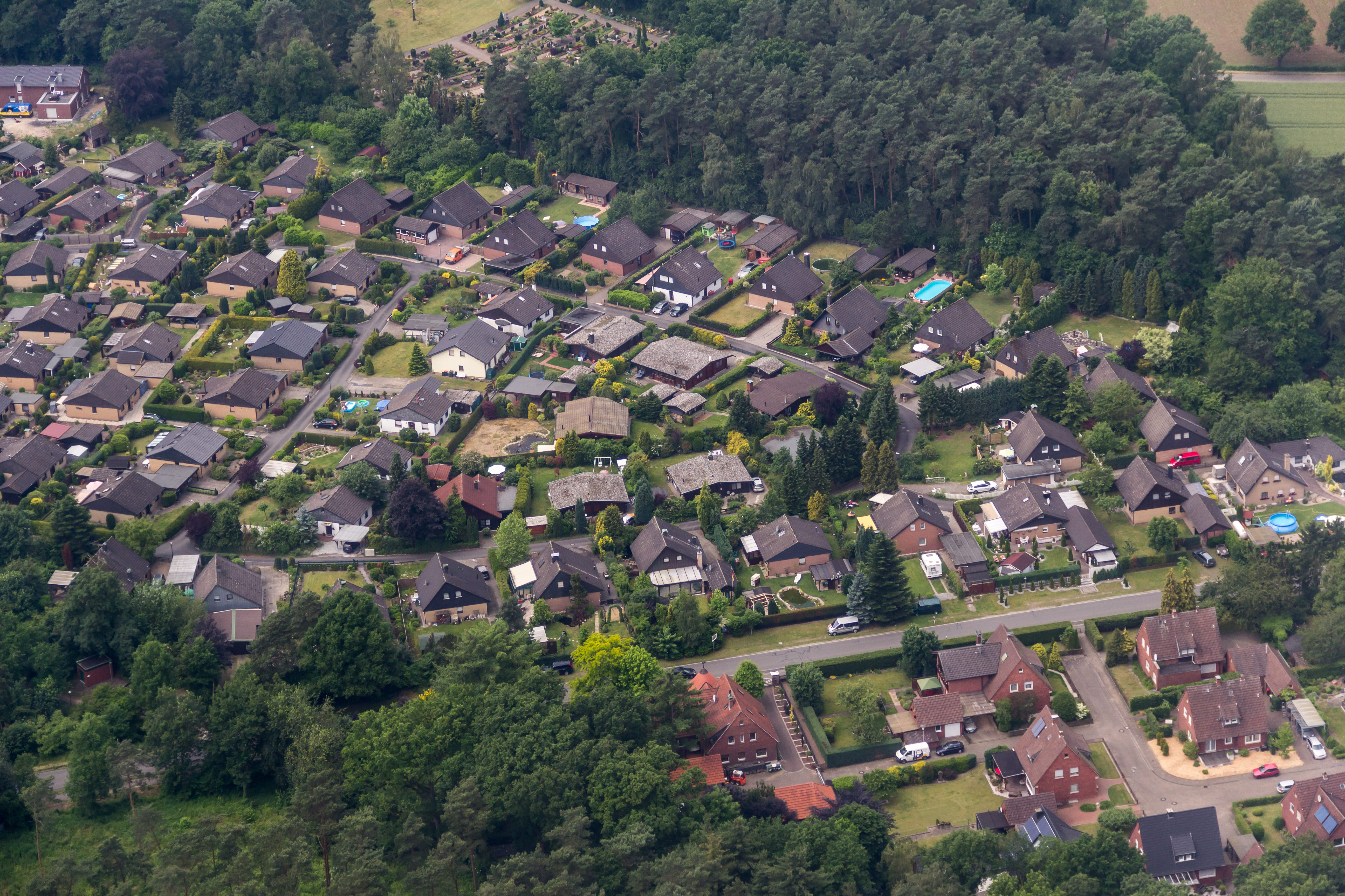 Residential area “Bergflagge”, Hausdülmen, Dülmen, North Rhine-Westphalia, Germany